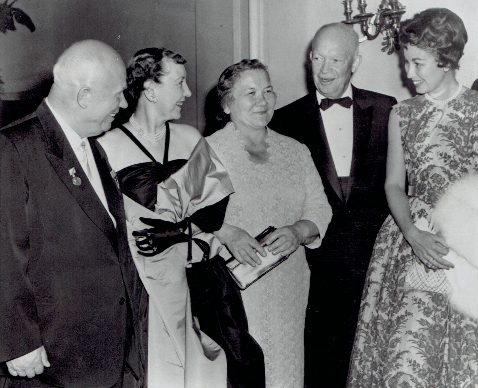 1959 Wire Photo President Eisenhower & Nikita Khrushchev at Russian Embassy